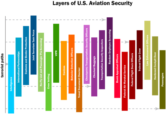 Layers of US Aviation Security